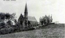 Our Lady and St Cuthbert Catholic Church, Maybole, Ayrshire (1878) unknown architect, Listed Category B.